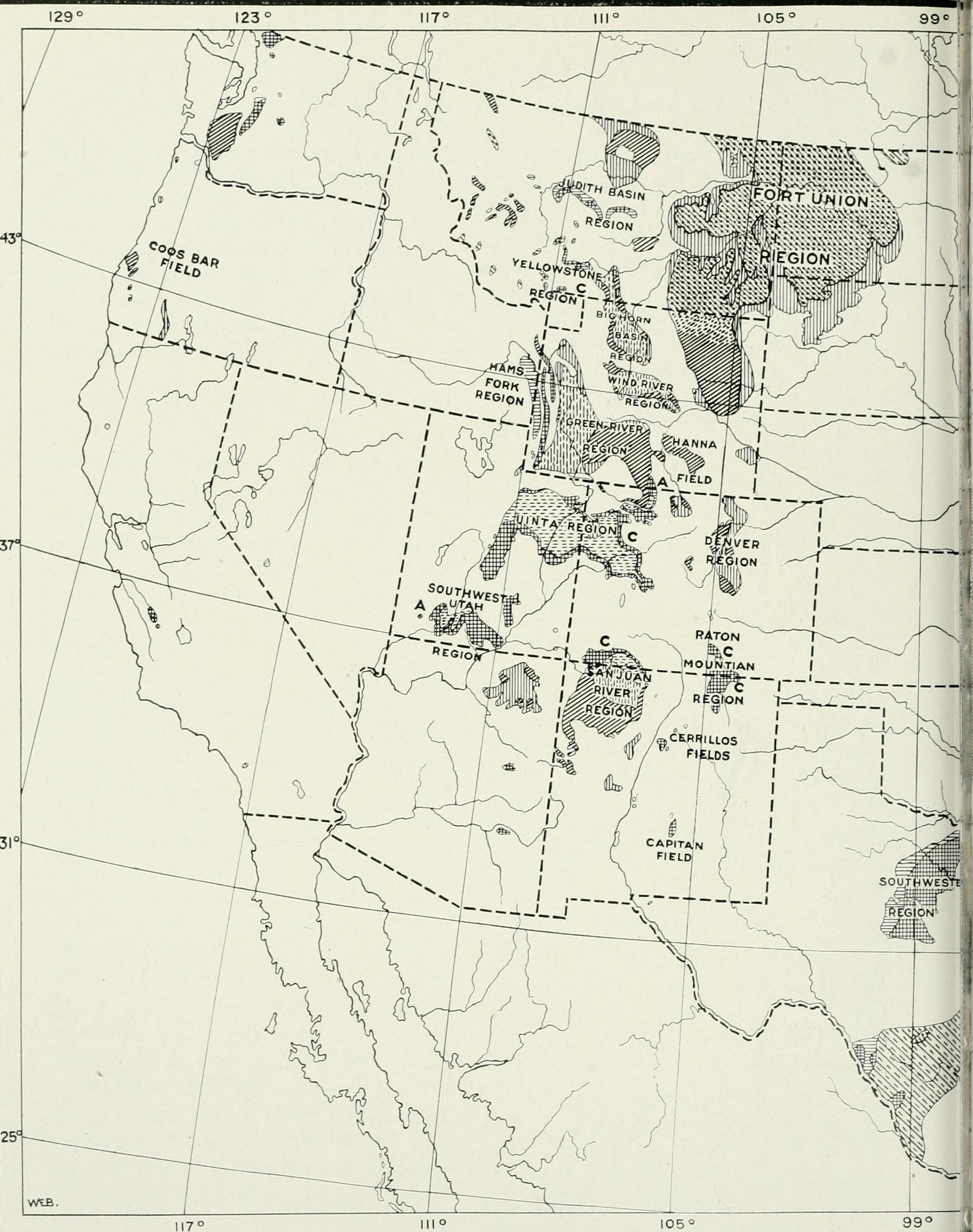 Coal fields in the USA Title: The American Museum journal Year: c1900-(1918) (c190s) Authors: American Museum of Natural History Subjects: Natural history Publisher: New York : American Museum of Natural History Text Appearing Before Image: ' Text Appearing After Image: UJ jhhi Sub bituminous Coal LUjnite In each case (1) indicates areas containing workable coal beds, (2) areas that may contain workable coal beds, and (3) areas probably containing workable coal beds under such heavy cover as not to be available at present 90